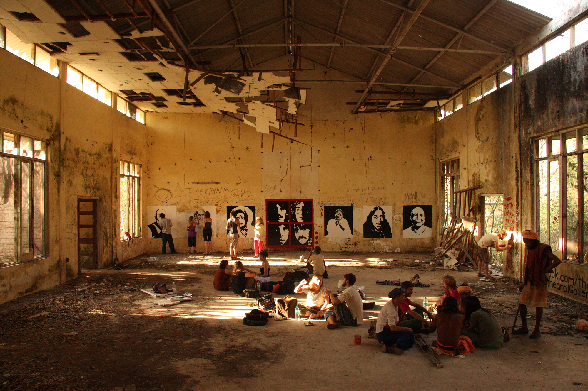 The Satsang Hall of the Maharishi Mahesh Yogi Ashram in Rishikesh, India at the start of it's revival as the Beatles Cathedral Gallery in 2012.